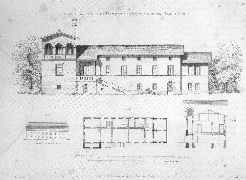 Elevation and ground-plan, Villa Heydert, Potsdam, Germany